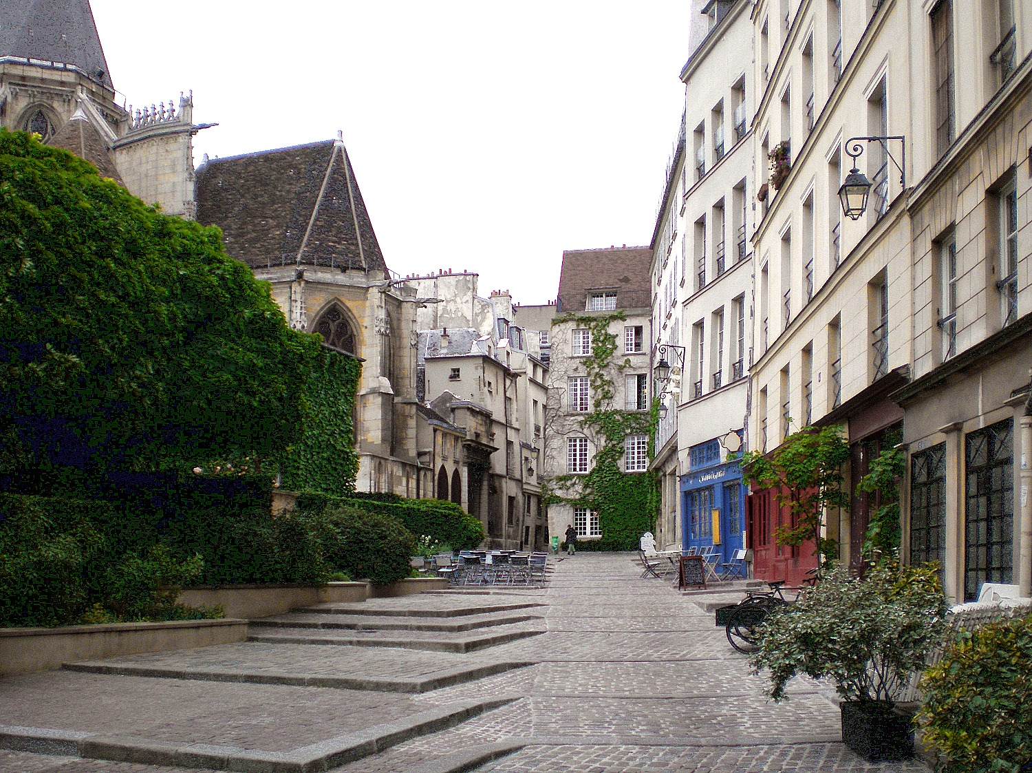 Rue des Barres - Paris